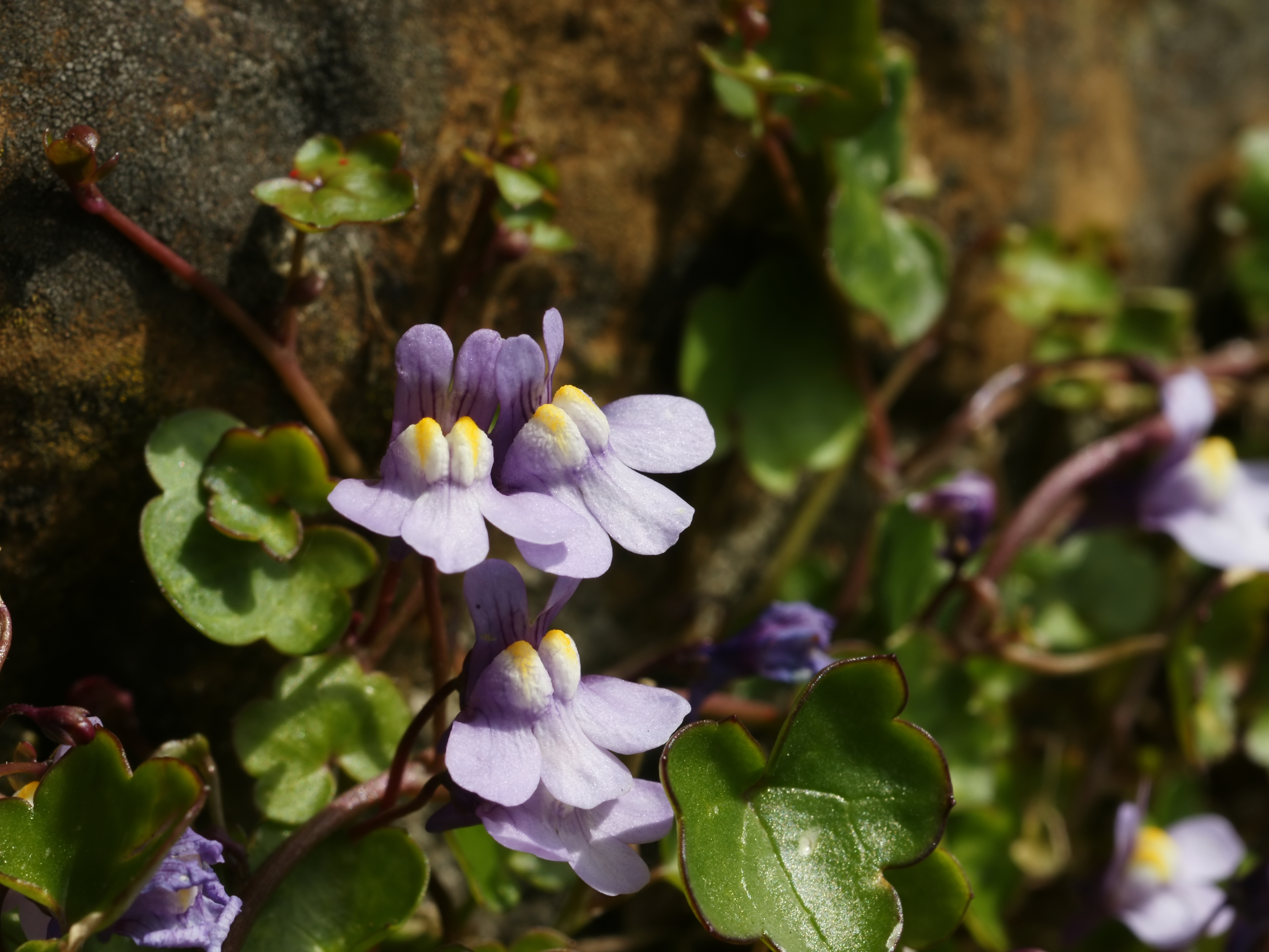 Ivy-leaved Toadflax at Boulogne sur Mer, France